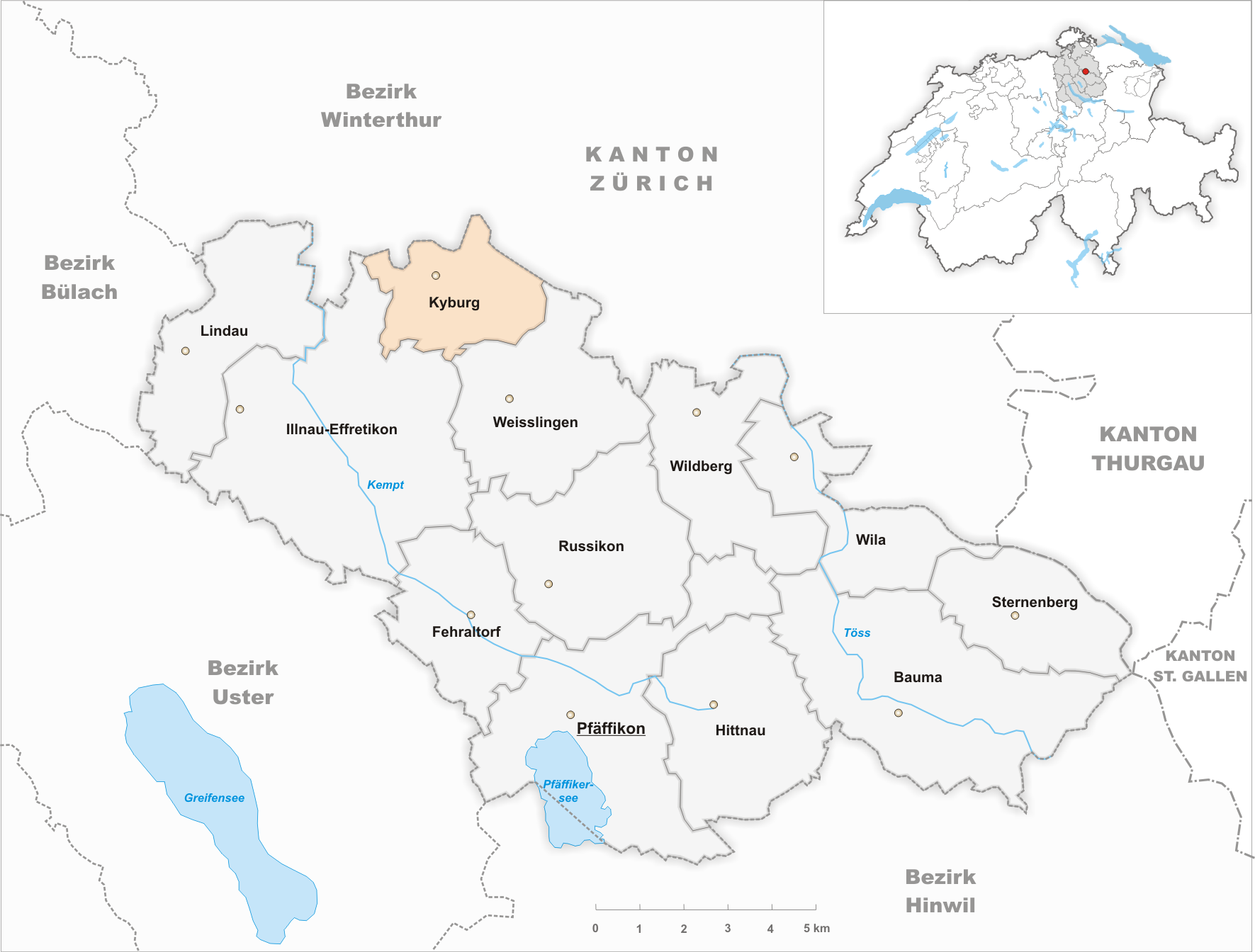 Municipality Kyburg